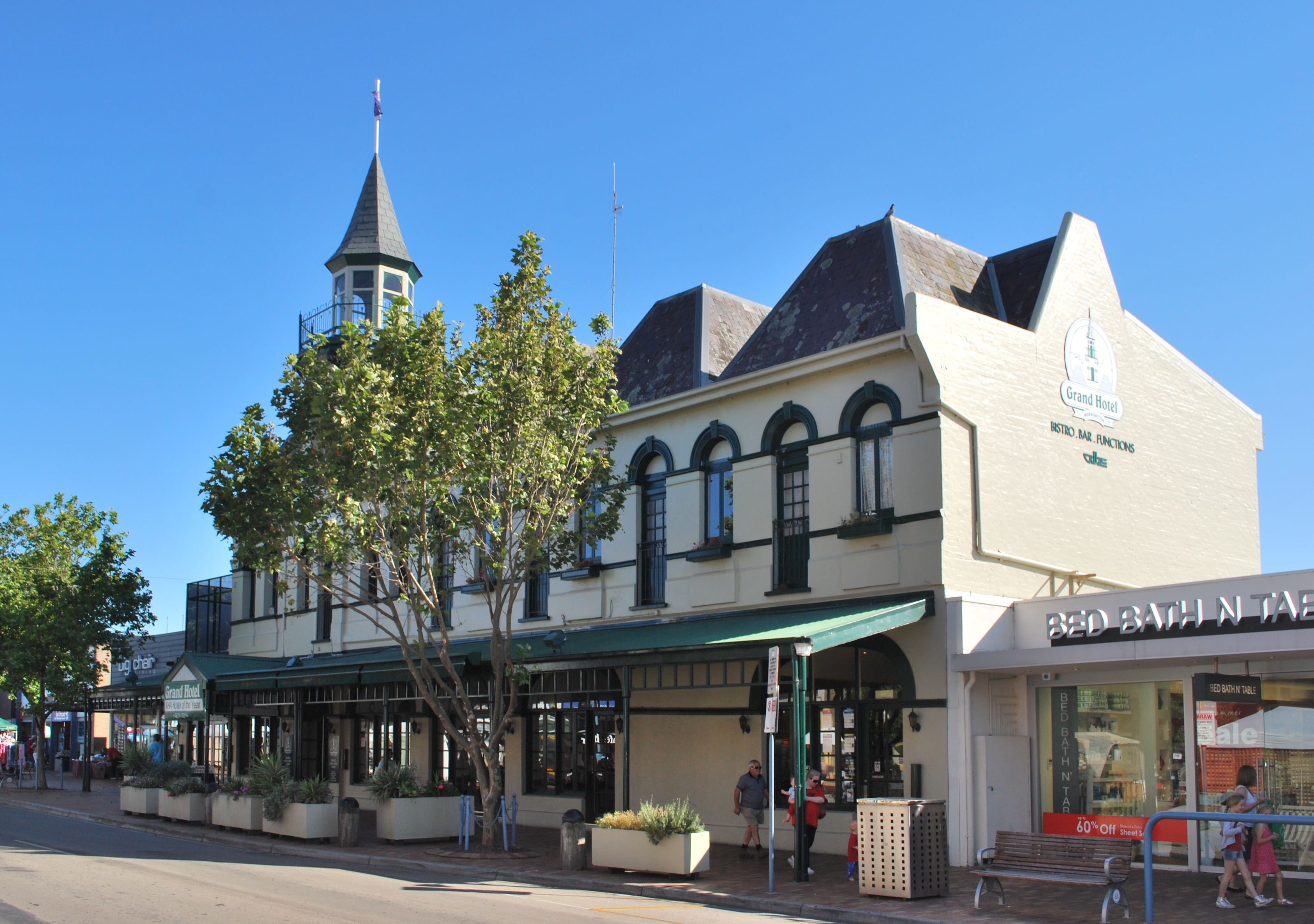 Grand Hotel at Mornington, Victoria